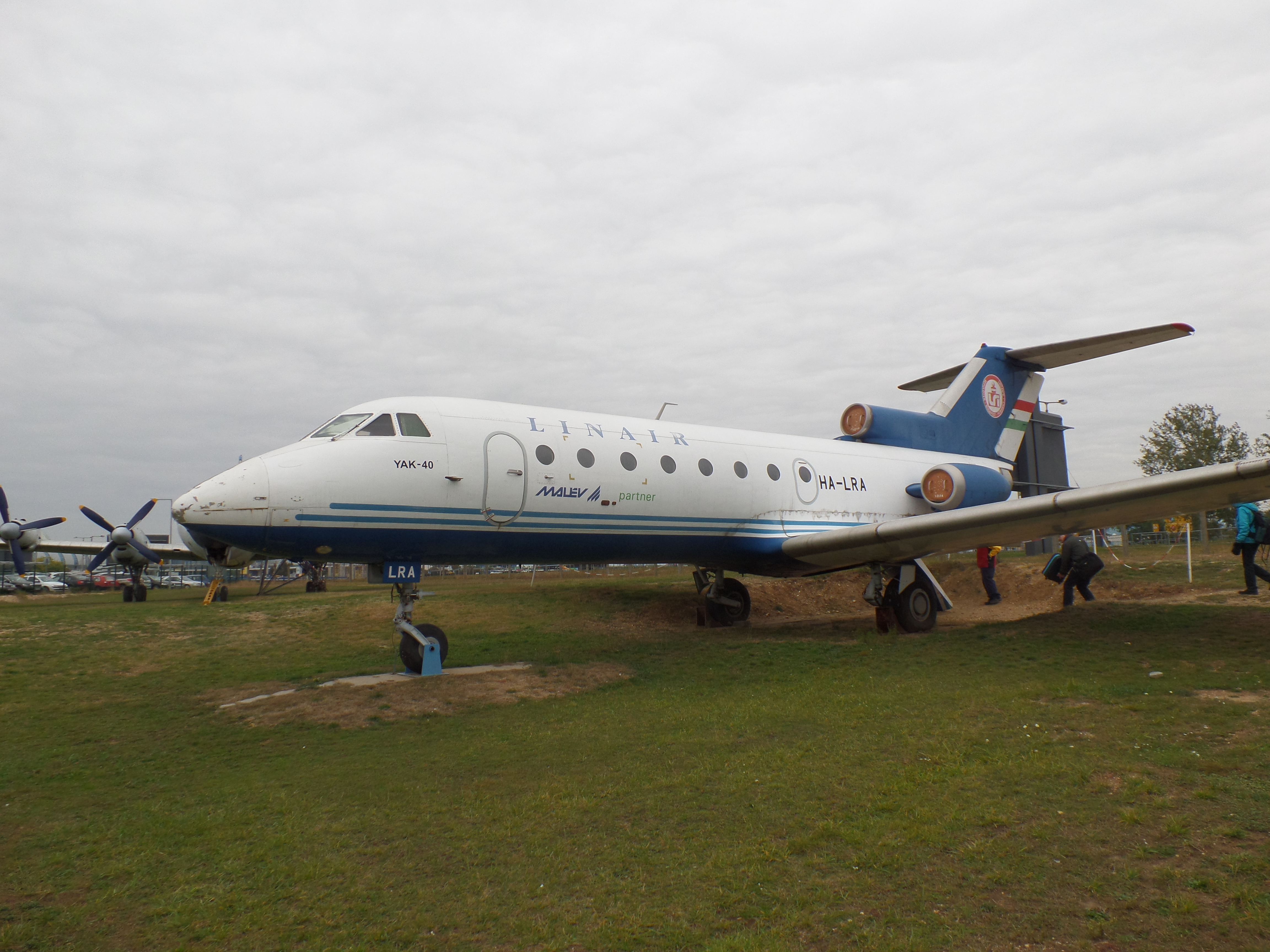 Linair Yakovlev Yak-40 HA-LRA at Aeropark Hungary on 20 October, 2016.